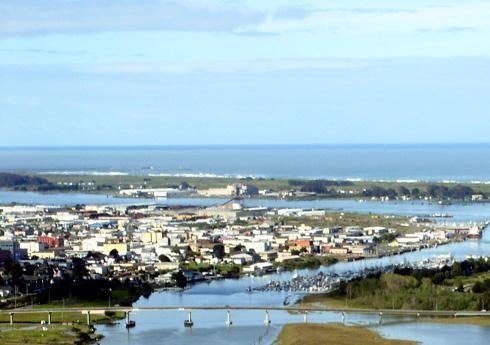 Photograph of Eureka, California overlooking the harbor, Woodley Island and Samoa Bridge.